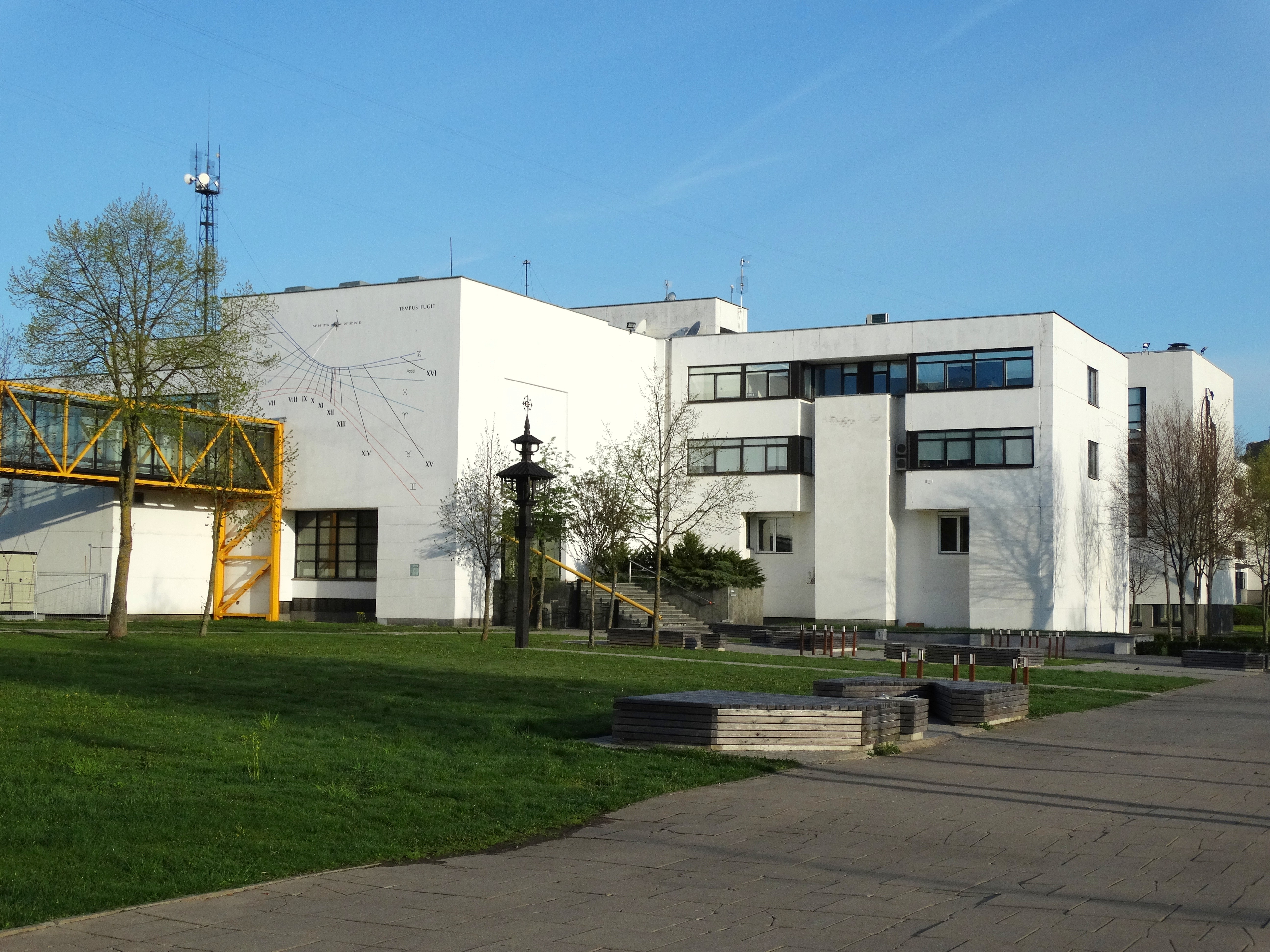 Sundial, University of Technology, Kaunas, Lithuania